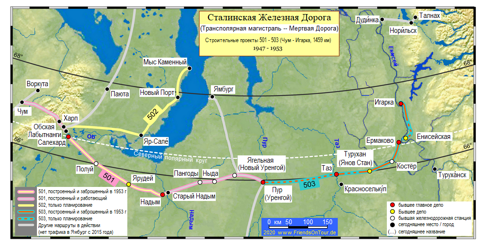 The map shows the implementation of the Soviet railway construction projects No 501 to 503. Additional are shown all railways lines that were planned or implemented before or after the No 501-503 lines.